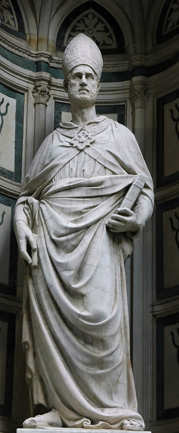 St Eligius. Statue commissioned by Maneschalchi (guild of farriers). Orsanmichele, Florence.